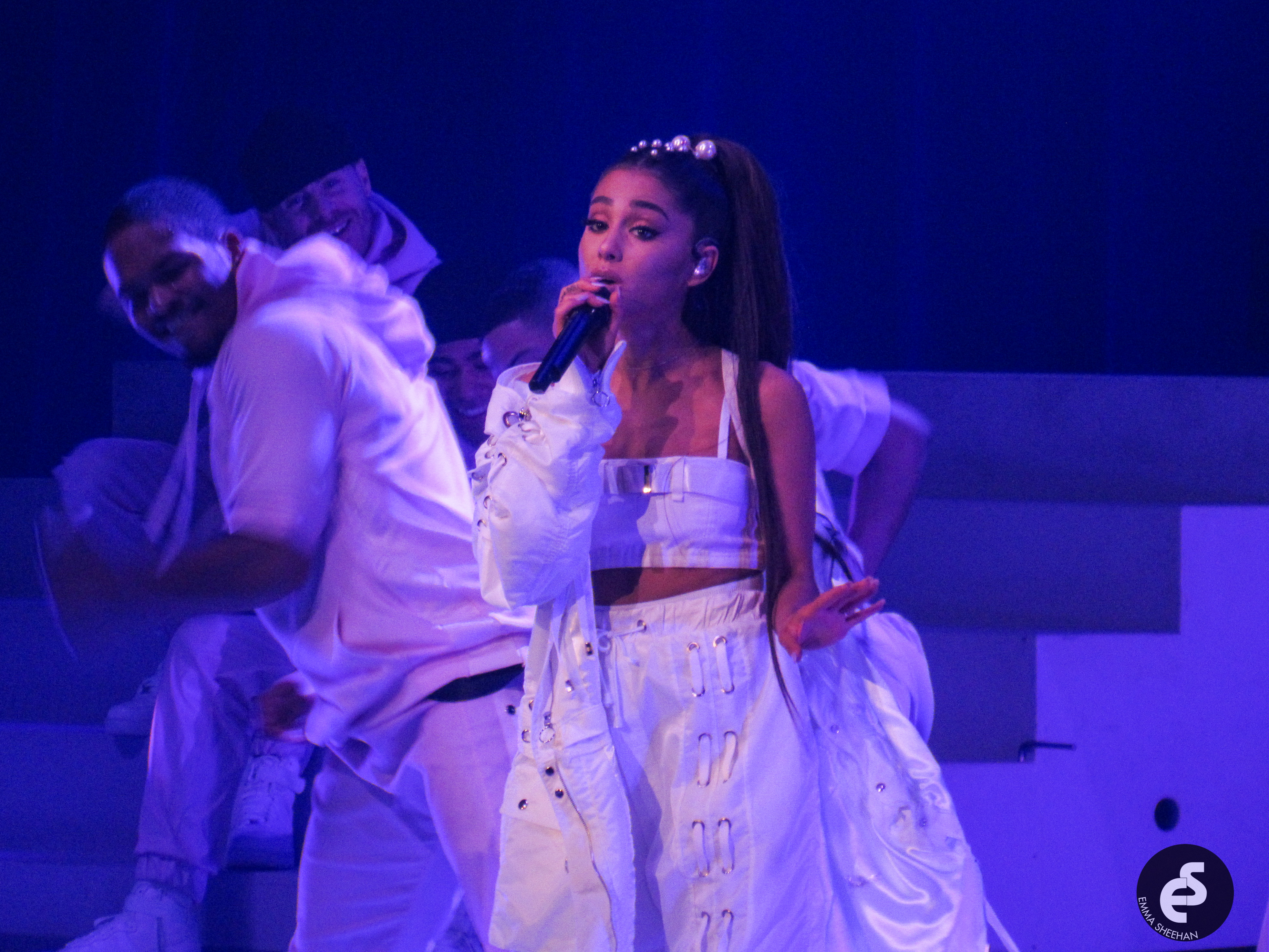 Dangerous Woman Tour 2/19/17 Ariana Grande performing during Dangerous Woman Tour in Manchester, New Hampshire, SNHU Arena, on February 19, 2017.